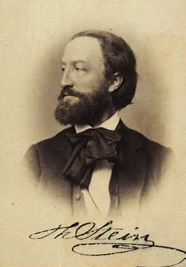 Johan Carl Henrik Theobald Stein (1829-1901), Danish sculptor